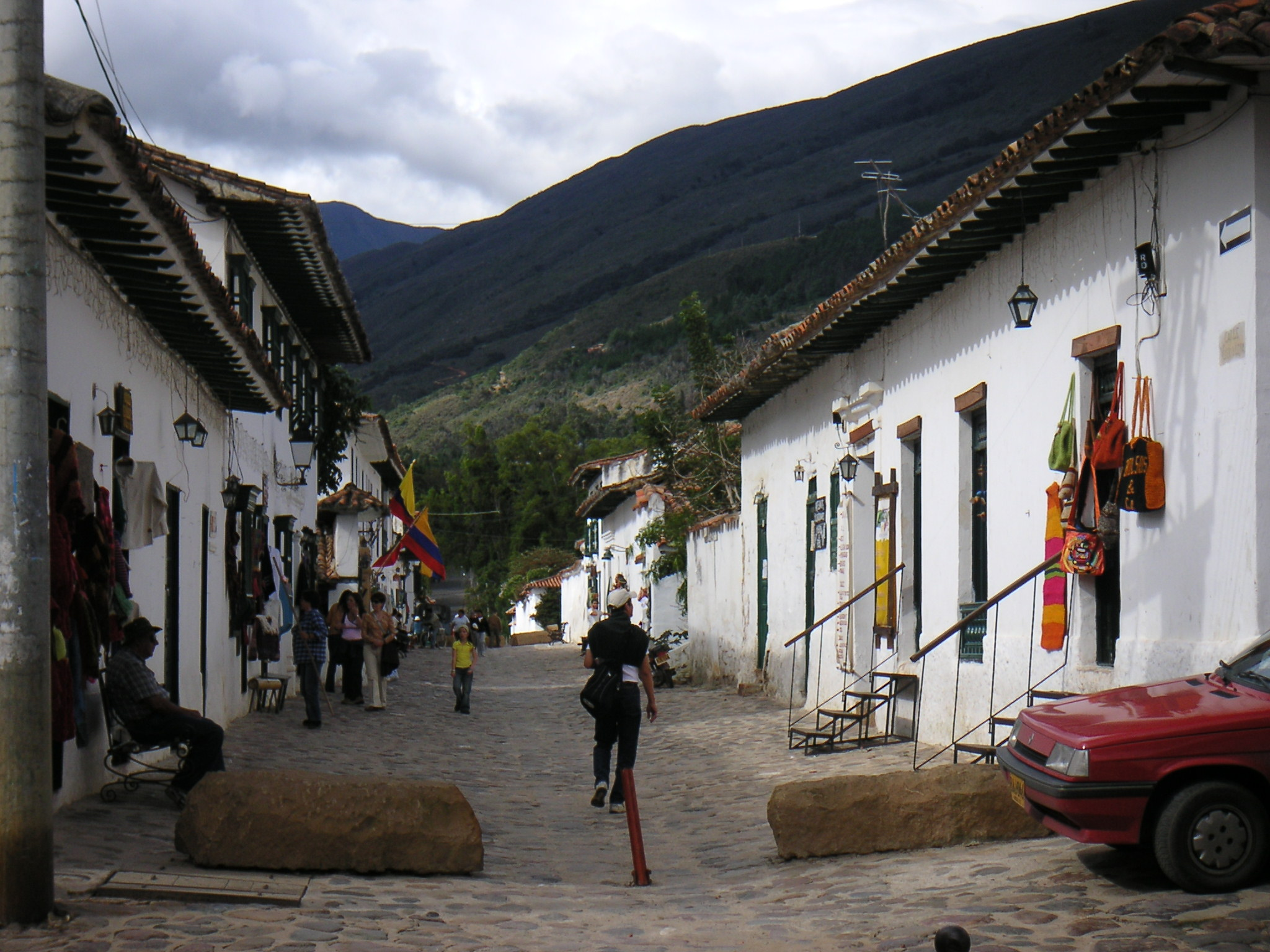 Description: Street of Villa de Leyva, Colombia Source: Louise Wolff (darina), June 2005